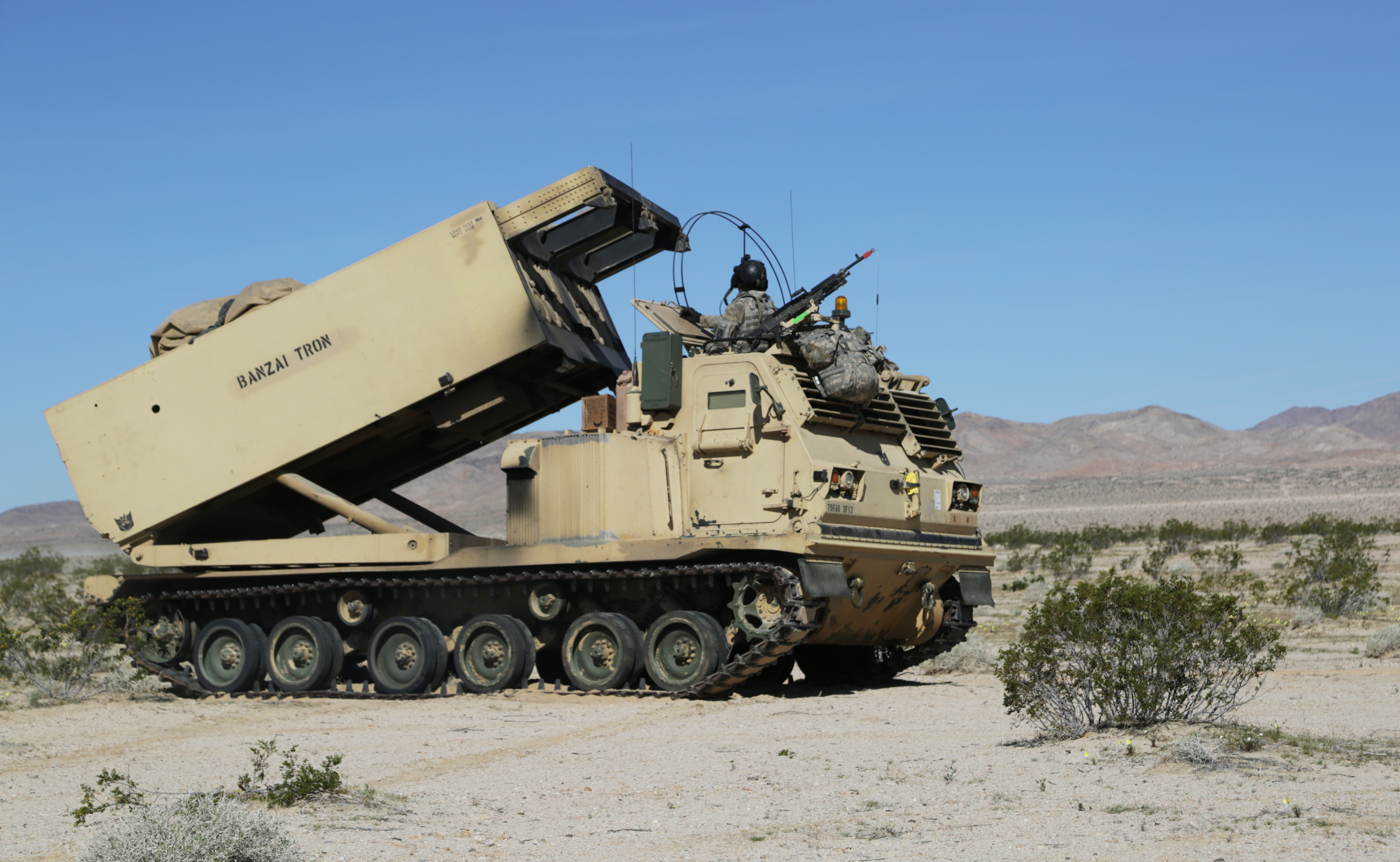 U.S. Army Soldiers from the 3rd Battalion, 13th Field Artillery Regiment, attached to the 2nd Brigade Combat Team, 1st Infantry Division, conduct a dry-fire exercise of the M270A1 Multiple Launch Rocket System during Decisive Action Rotation 15-06 at the National Training Center, Fort Irwin, Calif., March 25, 2015. Decisive Action Rotations allow units to fully exercise their Mission Essential Task List that supports the Army's core competencies: wide area security and combined arms maneuver. (U.S. Army photo by Spc. Ashley Marble/Released)